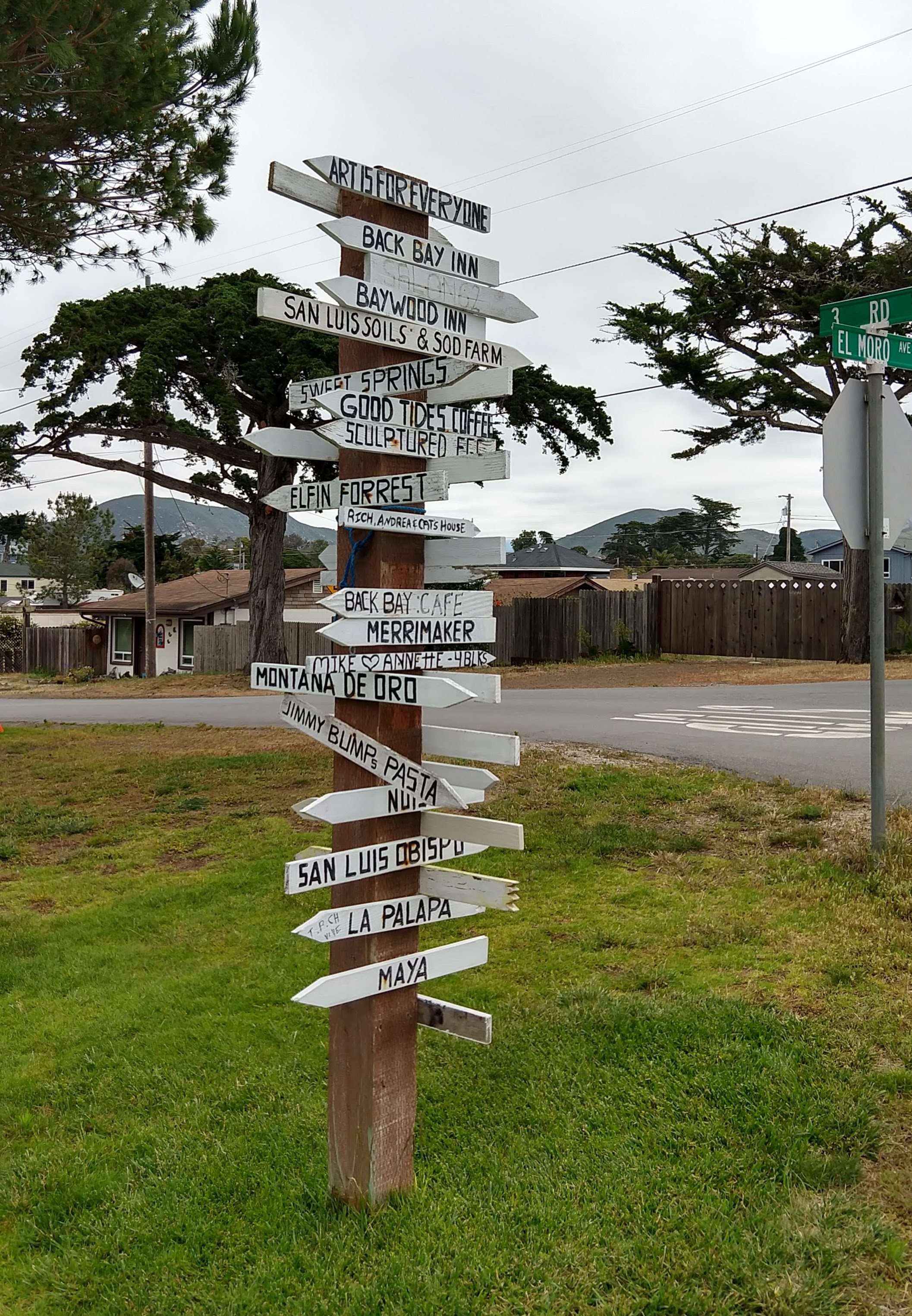 Signpost to local landmarks found at 3rd and El Moro in Baywood Park, California. Photo taken May 2019.